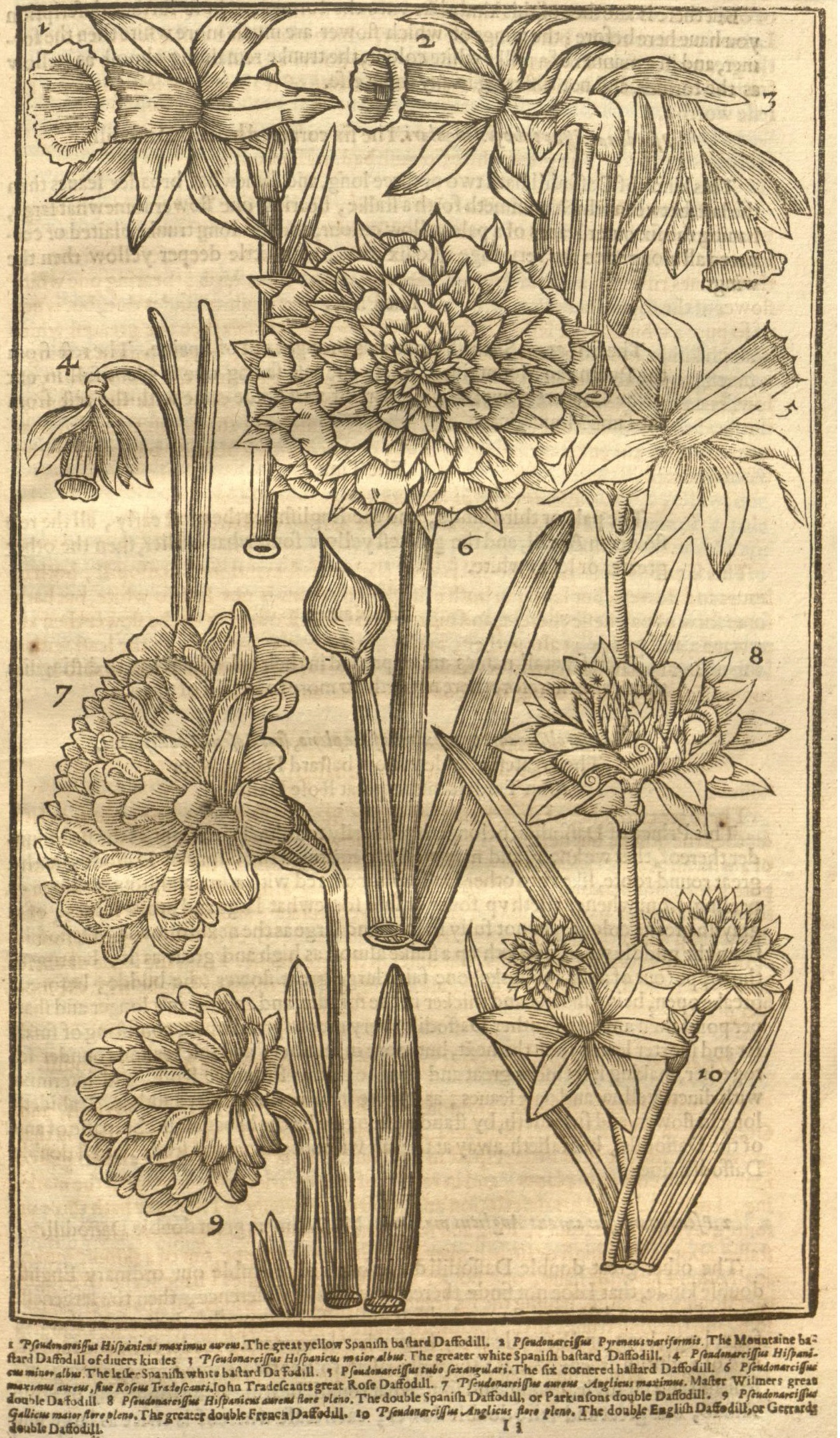 John Parkinson: Paradisus Terrestris, p. 101